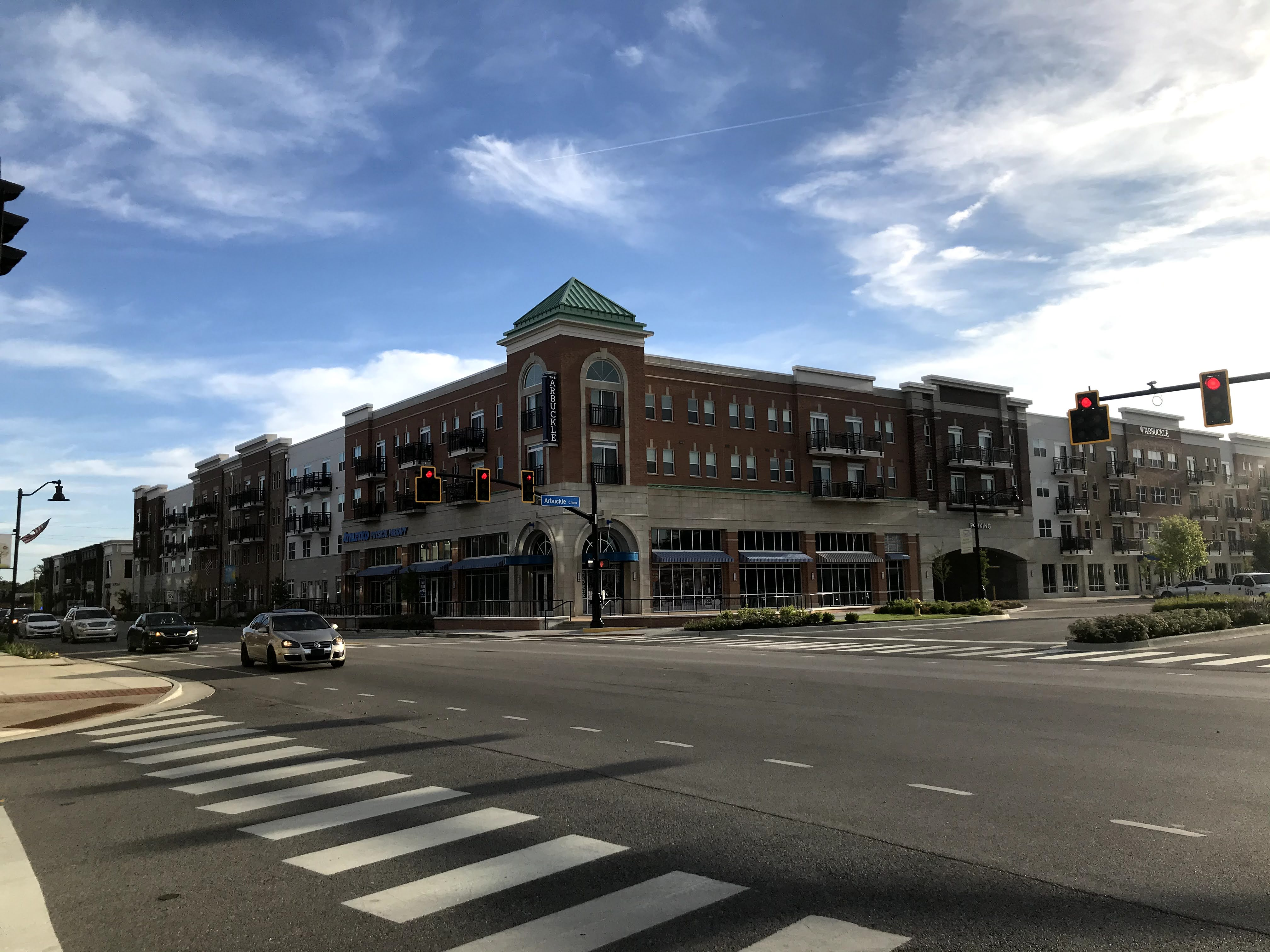 The Arbuckle, Brownsburg, IN